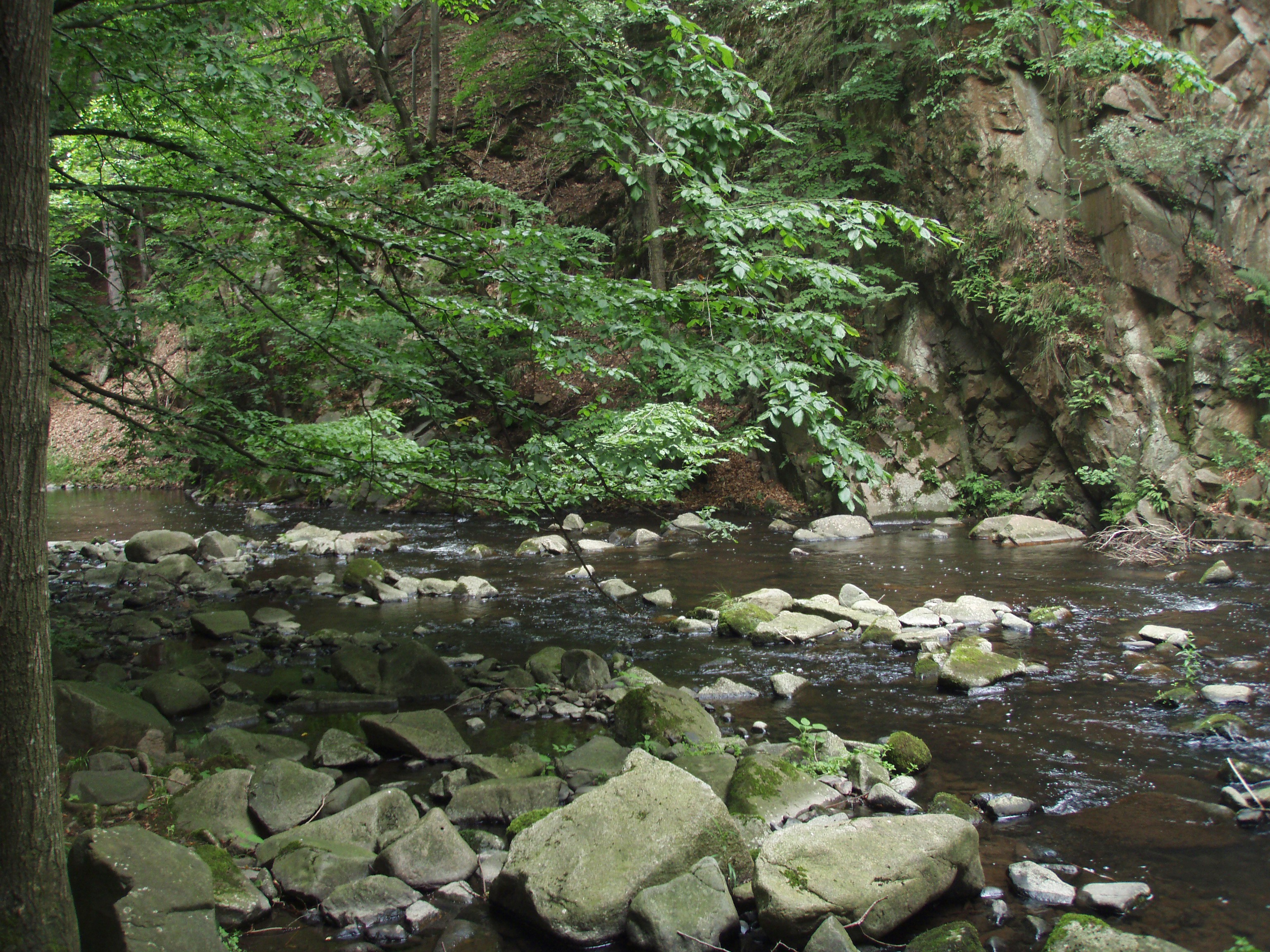 Nature reserve Strádovské Peklo in Chrudim District, Czech Republic